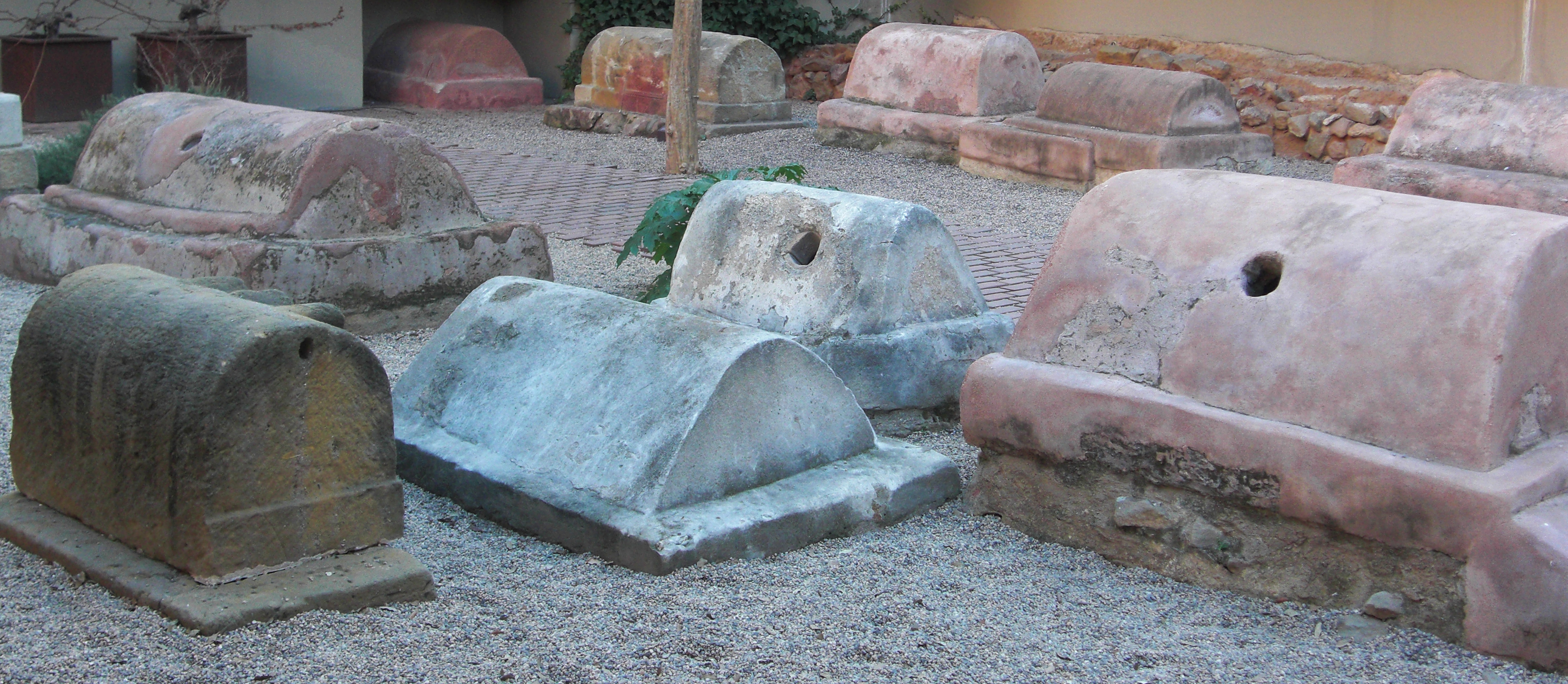 Roman tombs in Barcelona